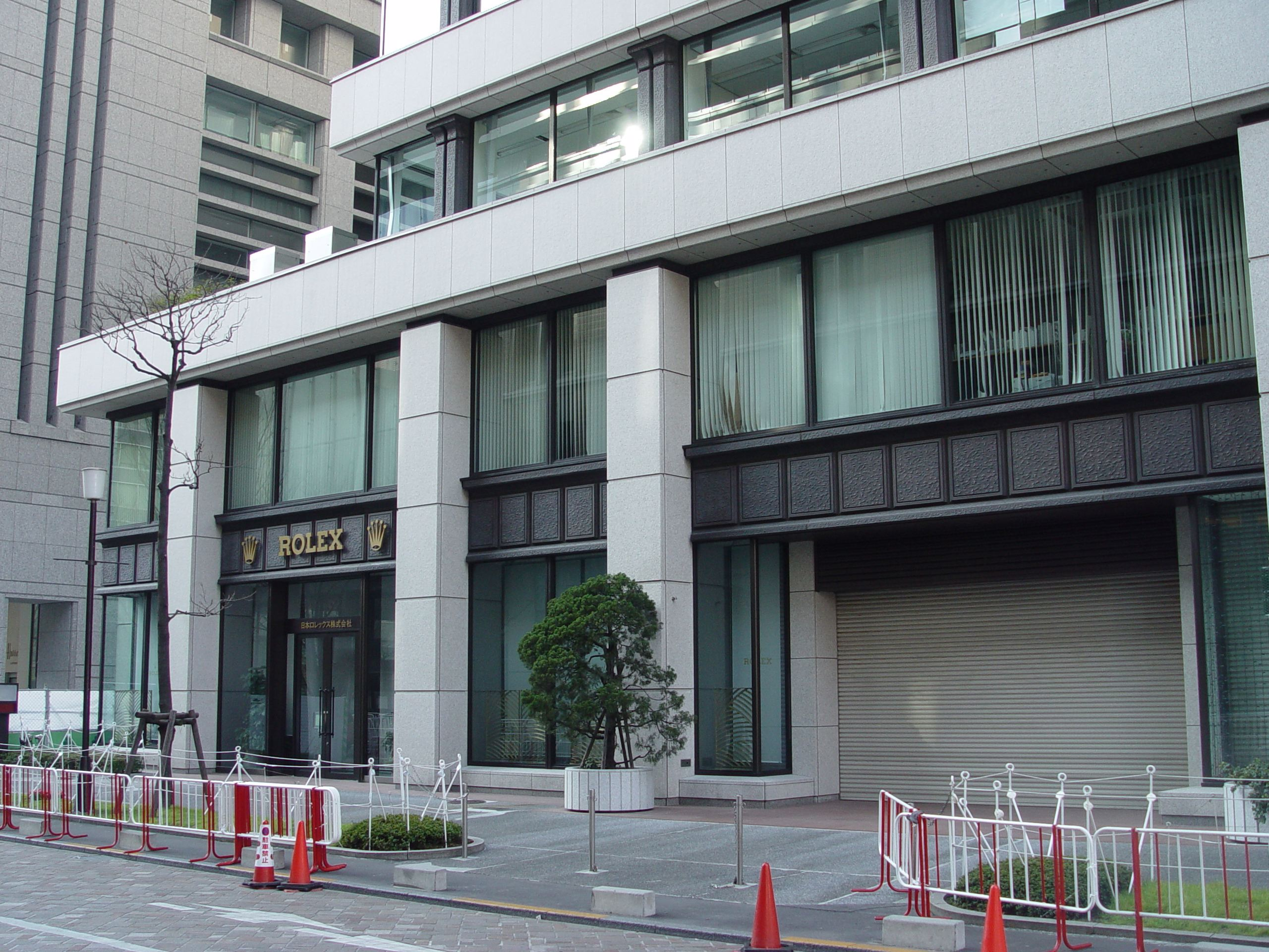 Head office of Rolex (Japan) in Yusen Building, Marunouchi, Chiyoda-ku, Tokyo, Japan 郵船ビル内の日本ロレックス本社